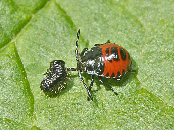 Nymph of Zicrona caerulea preying a larva. Faiallo, Genova, Italy